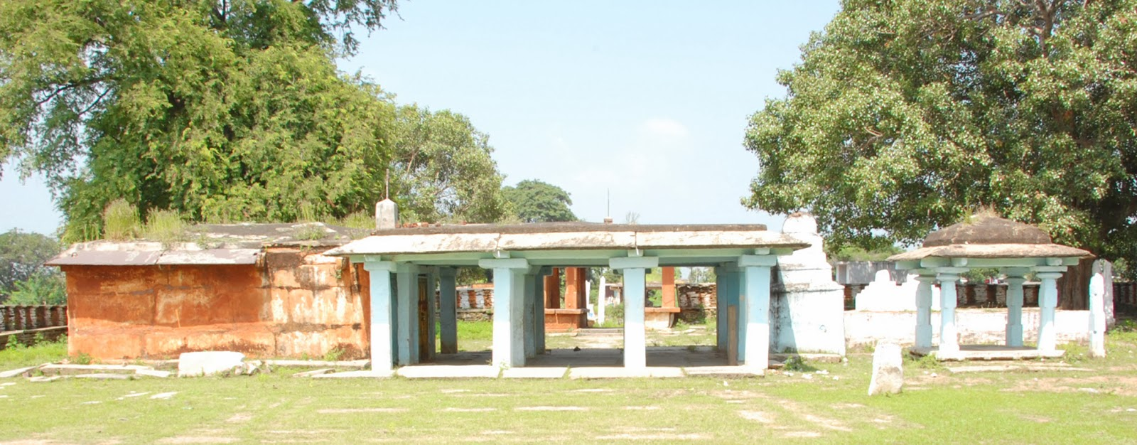 veerulagudi